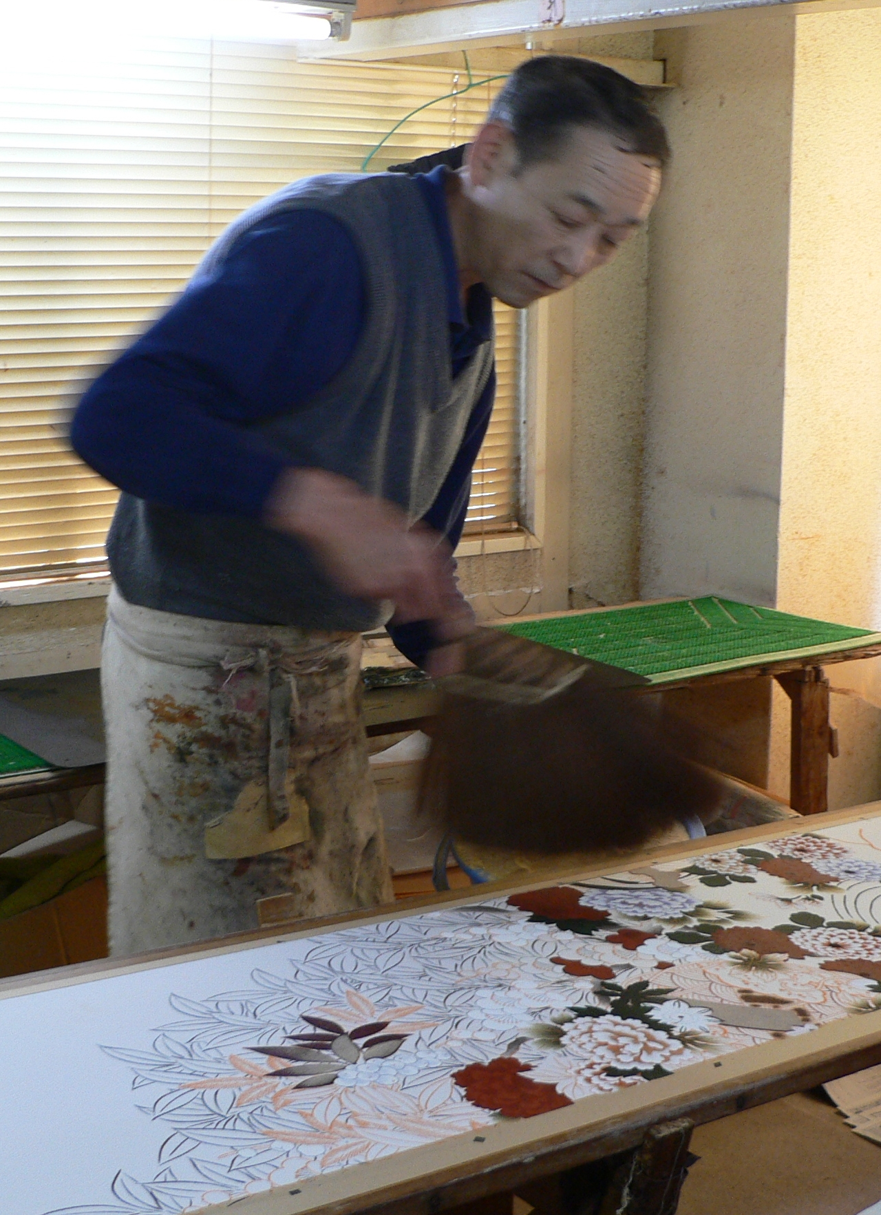 Drying the resist paste on the kimono fabric